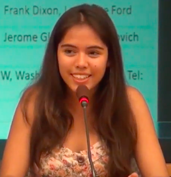 Xiye Bastida - climate change presentation, 2019